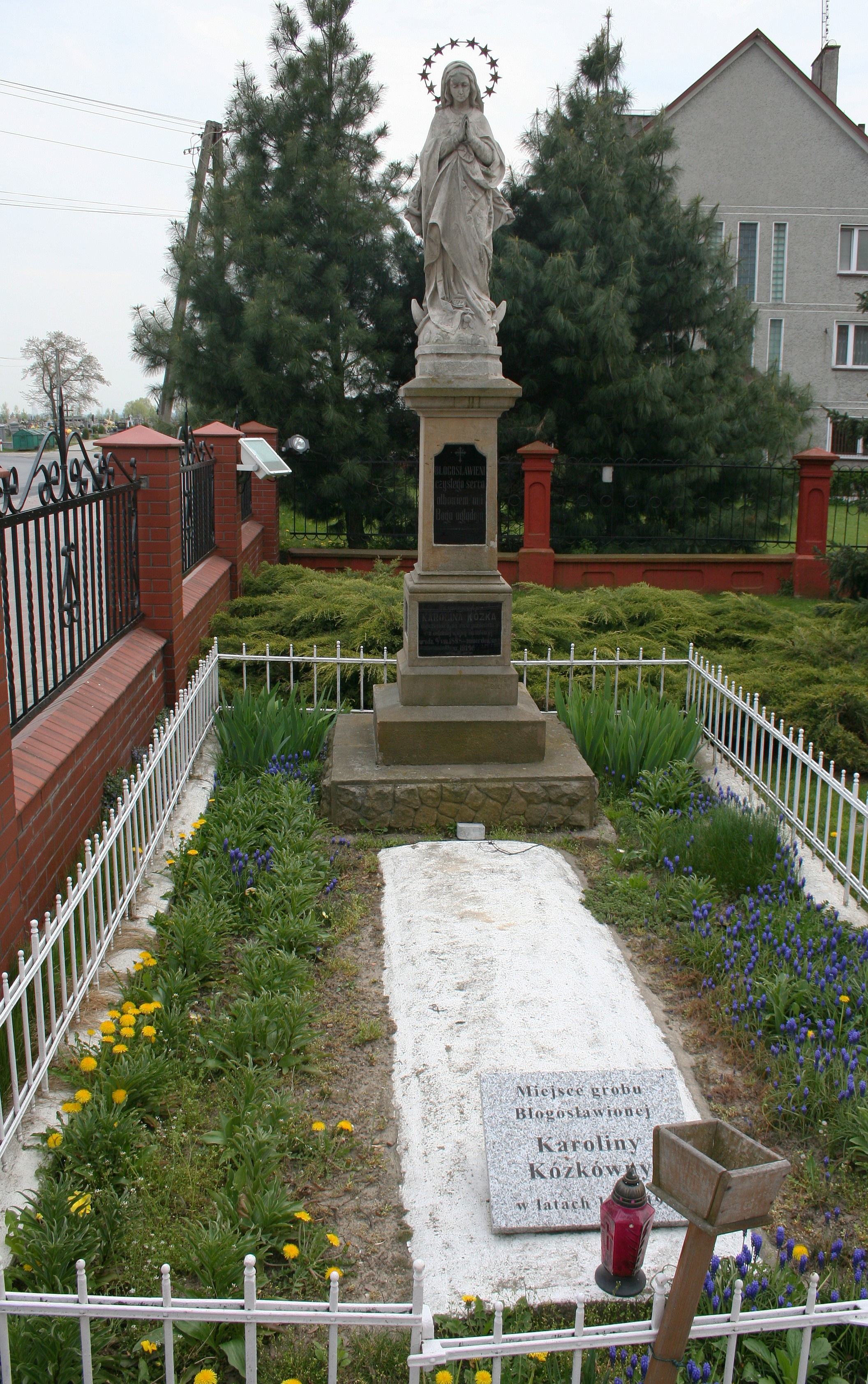 The former grave of Karolina Kózka near the Sanctuary of the Blessed Karolina Kózka in Zabawa, Poland.